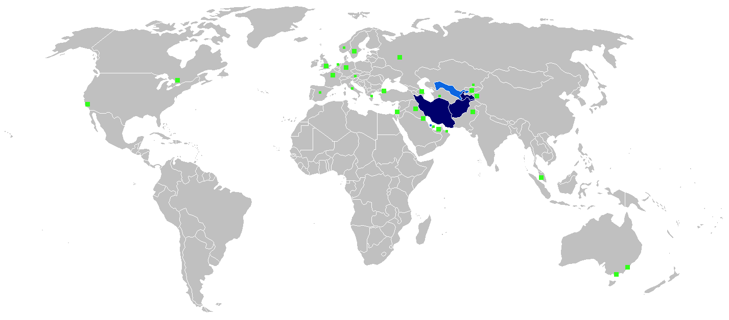 A map of the Persian speaking world. Persian is (co-)official and first language of the majority of the population Persian is a Secondary language or non-official Significant Persian-speaking communities Data: Estimated number of (native) Persian-speaking people United States 2,560,000 Turkey 800,000 U.A.E. & Bahrain 700,000 Iraq 250,000 Germany 110,000 UK 80,000 Canada 75,000 France 62,000 India 60,000 Australia 60,000 CIS 50,000 Israel 50,000 Lebanon 50,000 Philippines, Korea & Japan 50,000 Russia & Other Former Soviet Union countries 50,000 Syria 50,000 Pakistan 40,000 Egypt & North Africa 20,000 Greece 20,000 Kuwait 20,000 Austria 15,000 Spain & Portugal 15,000 Sweden 15,000